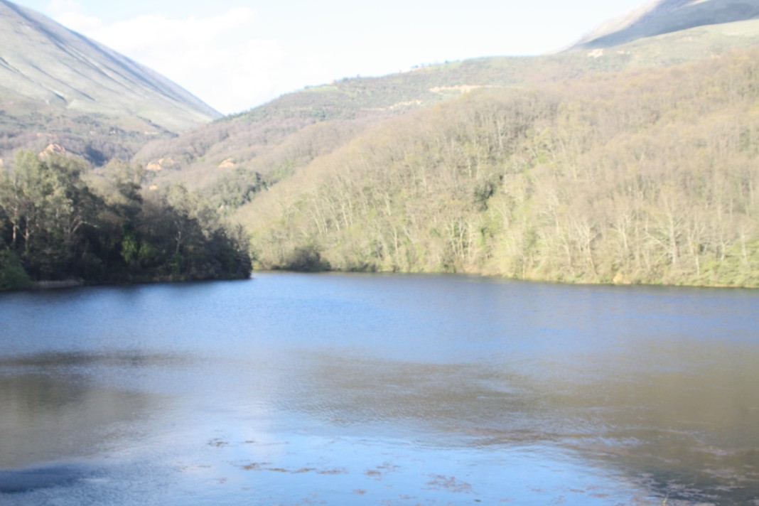 Bistrica Lake, Albania